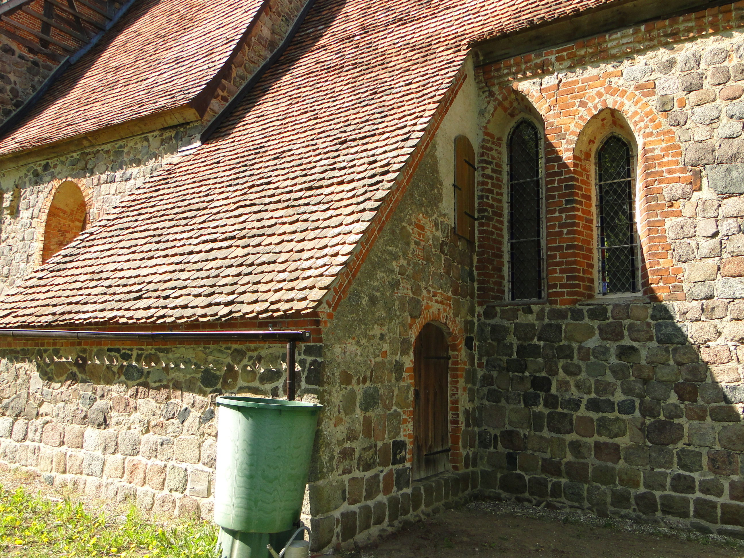 Church in Badresch, district Mecklenburg-Strelitz, Mecklenburg-Vorpommern, Germany